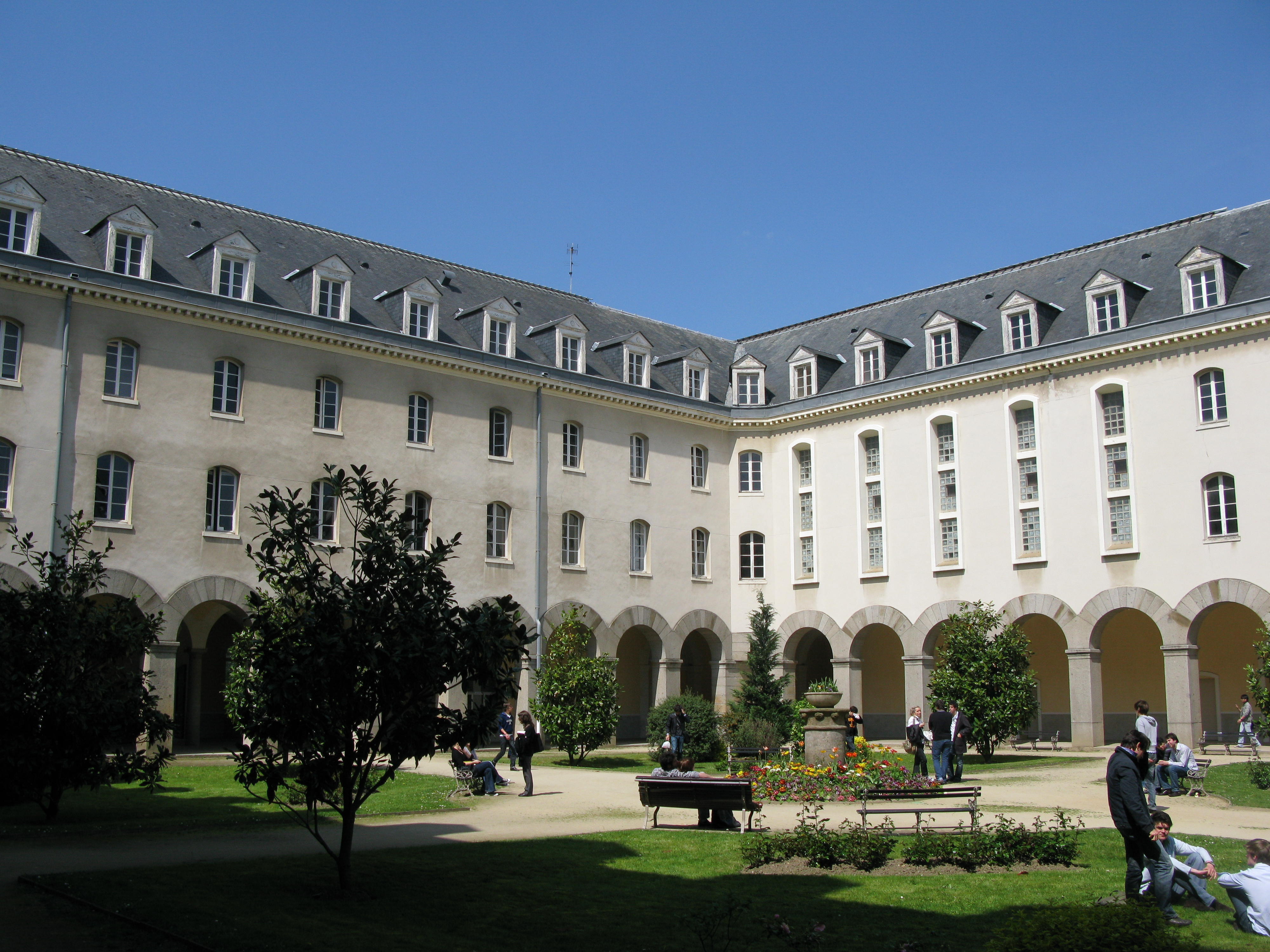 Building of the economy faculty of Rennes 1 university in Rennes, France. Untils 1967, the Humanities faculty was also in this place.